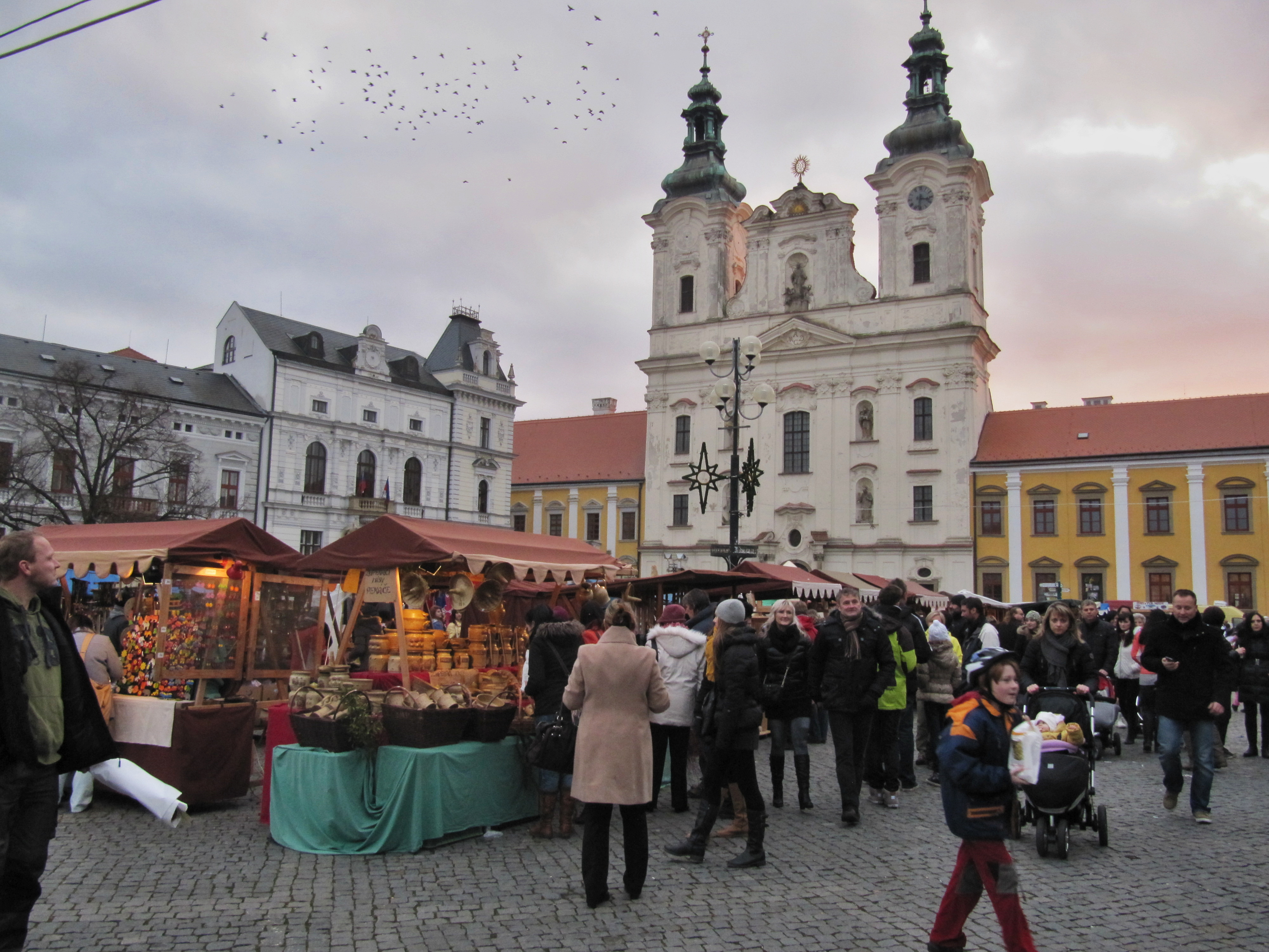 Uherské Hradiště, Czech Republic, Masarykovo náměstí square, Christmas market 2013.